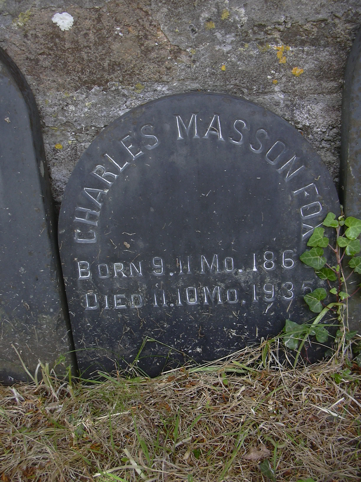 Gravestone of Charles Masson Fox at Budock Quaker Burial Ground, near Falmouth, Cornwall, UK